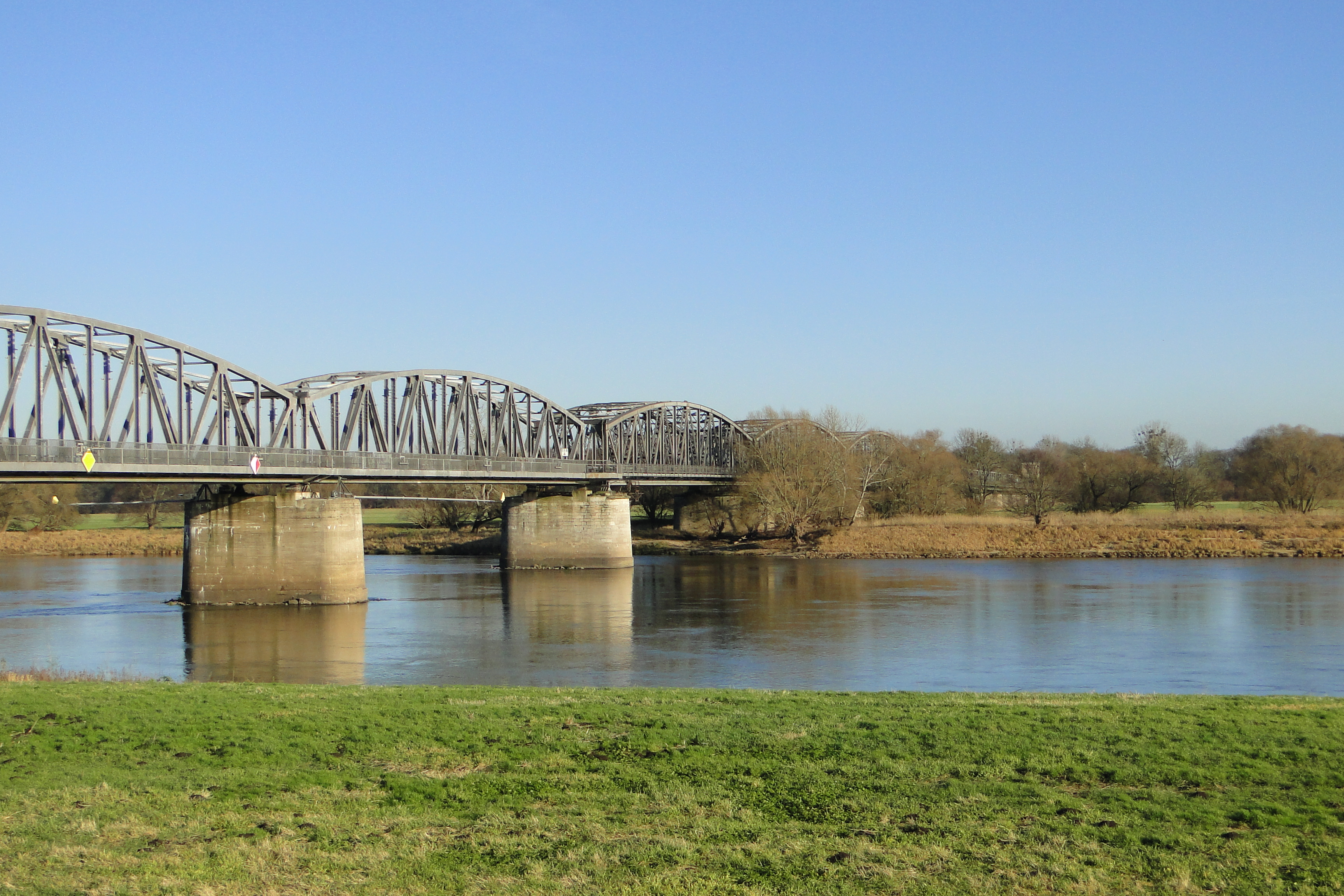 Railway bridge over the Elbe river near Barby, Salzlandkreis, Sachsen-Anhalt, Deutschland